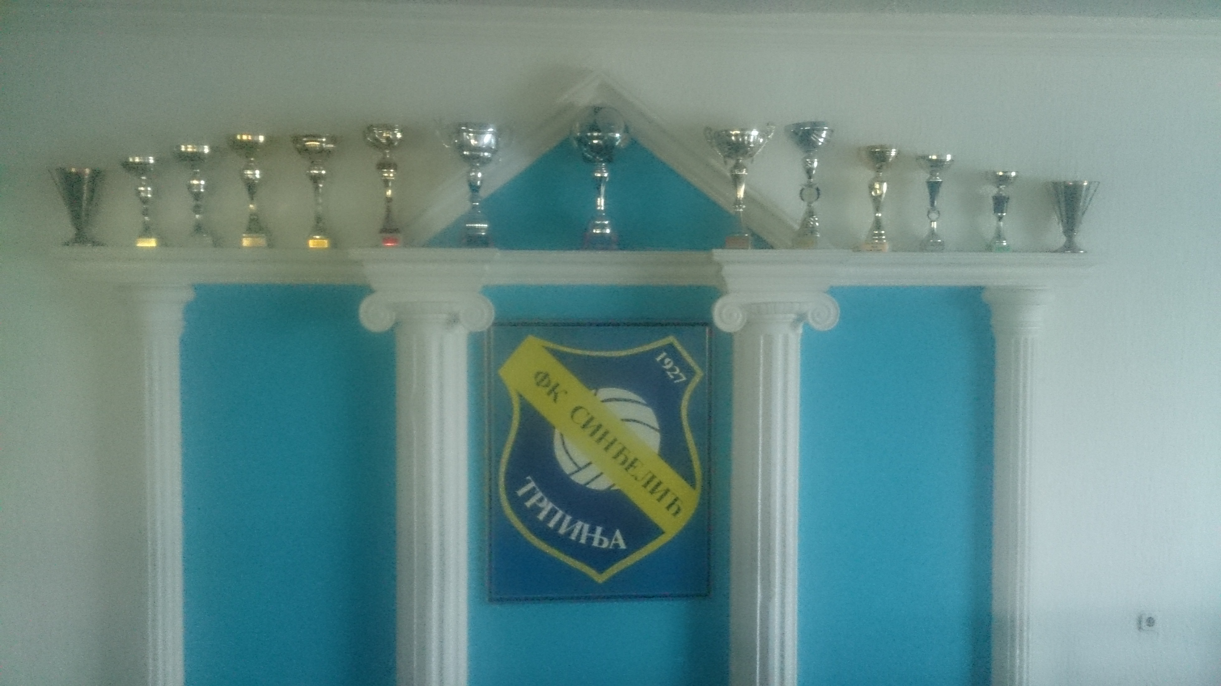 Trophies of NK Sinđelić Trpinja